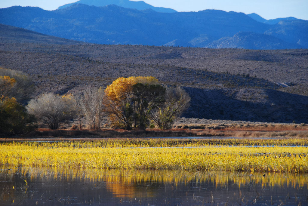 A contrasting landscape surrounds Pahranagat National Wildlife Refuge in Nevada. (USFWS) − U.S. Fish and Wildlife Service Pacific Southwest Region